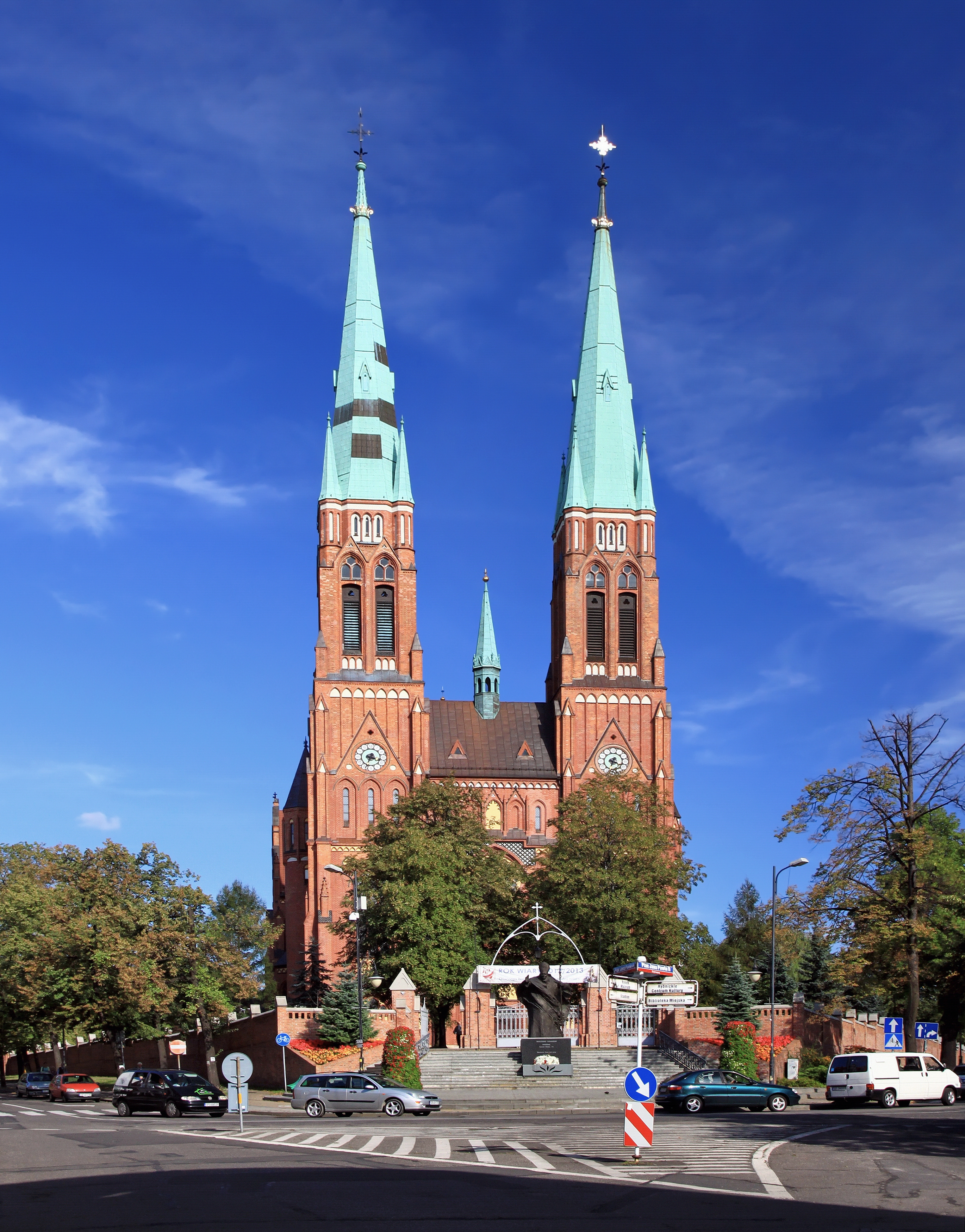 Rybnik, Basilica of St. Anthony, build in 1903-1907